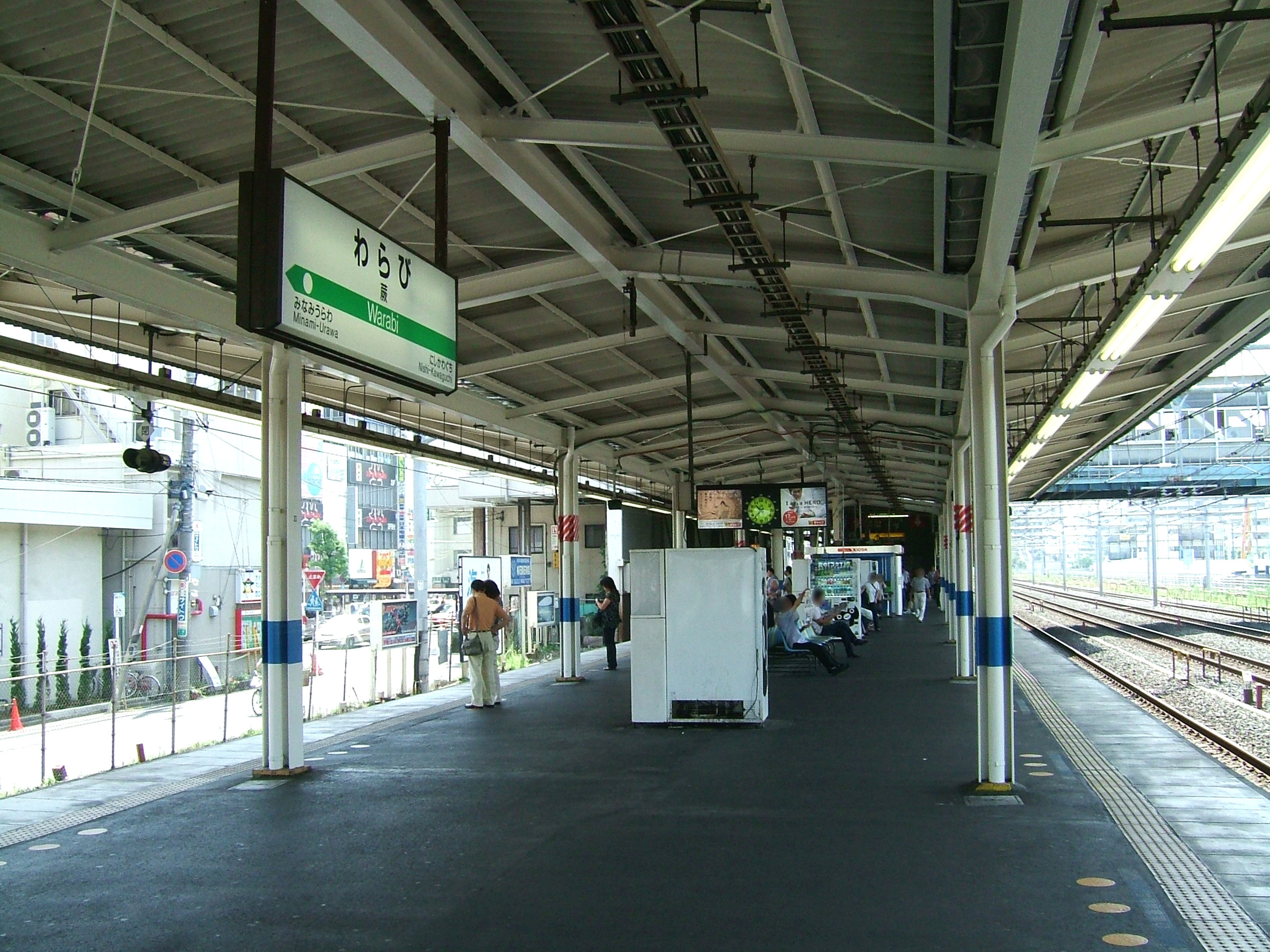 Warabi Station platform (East Japan Railway Tōhoku Main Line(Keihin-Tōhoku Line))